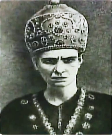 Abbas Mirza Sharifzade as Agha Mohammad Shah Qajar. "Agha Mohammad Shah Qajar" play by Abdurrahim bey Haqverdiyev.